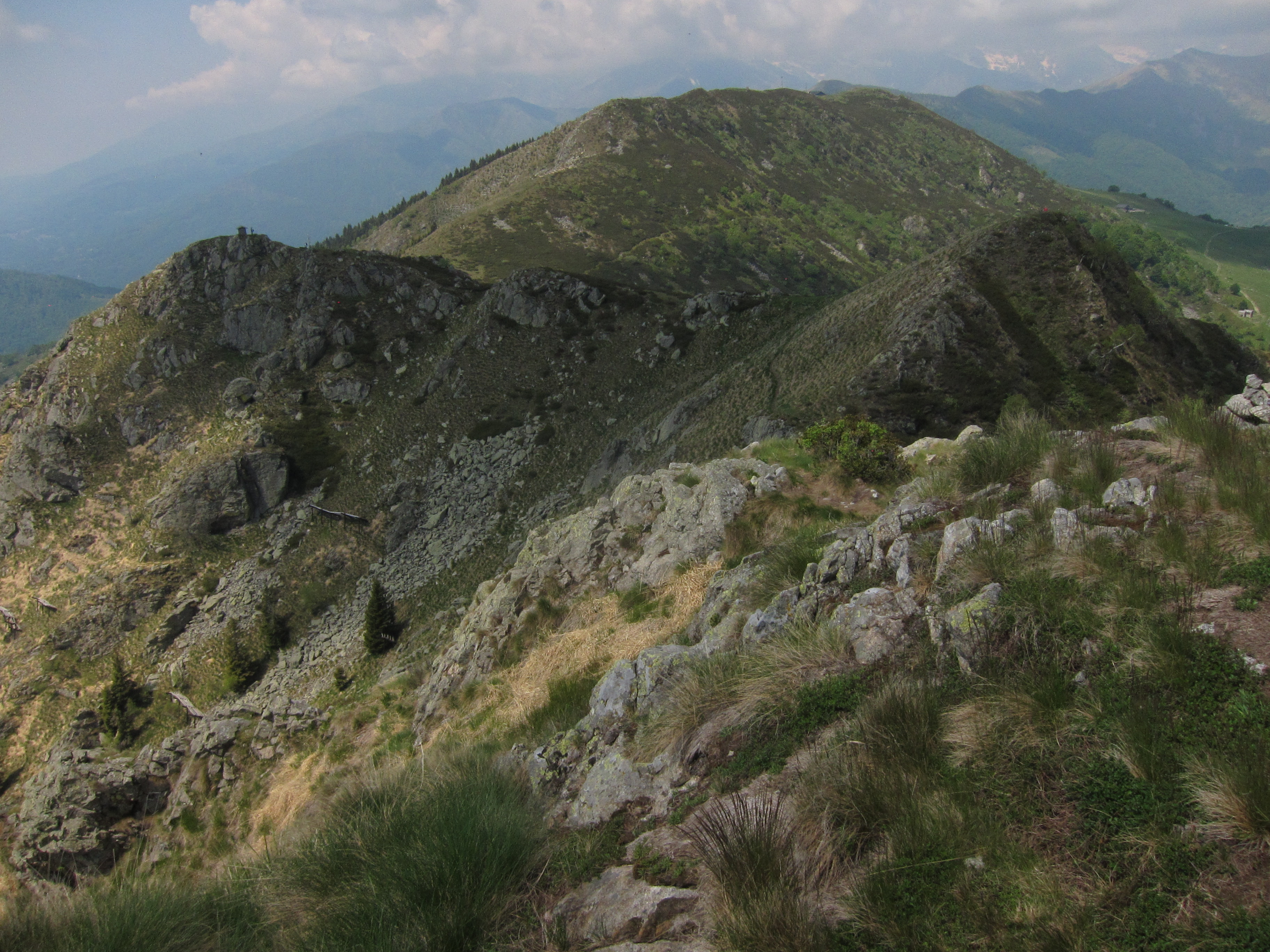 Panoramic view of the mountains west to the summit of Rocca D'Argimonia mount. The mountain is located in Biella province, in Piedmont region in Italy. Picture taken on the 2nd of June in 2019. 2019-06-02